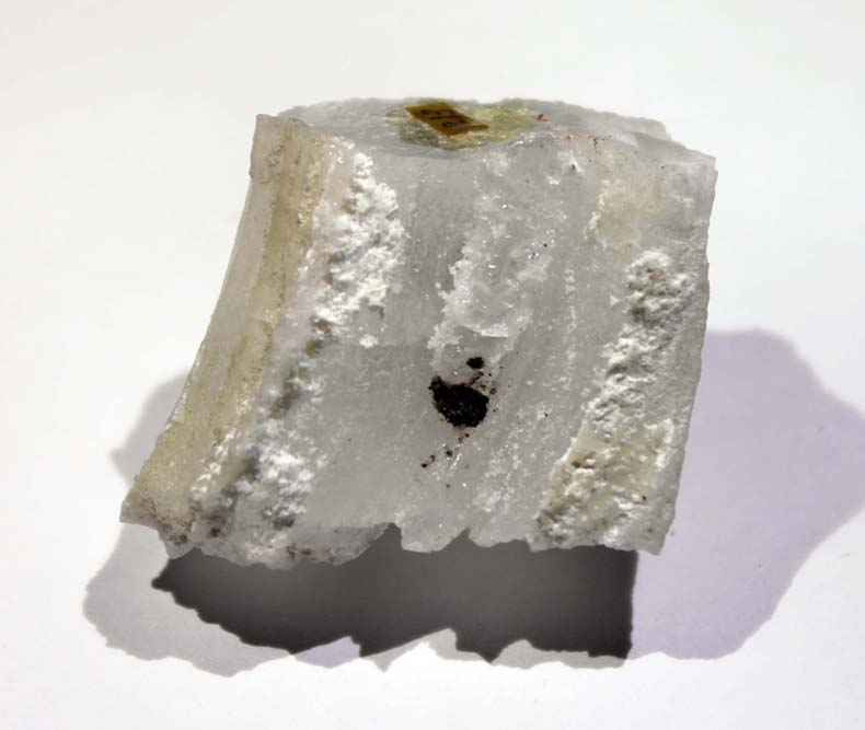 Colorless crystals of the rare Na-Al sulphate mineral mendozite in matrix of the same mineral. Ex.Ralph Merrill collection. From: Mecca Hills, Riverside County, California, United States of America.